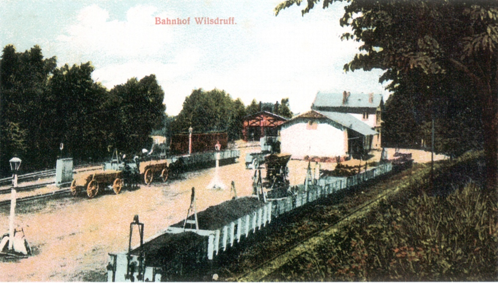 Train station from Wilsdruff/Germany.